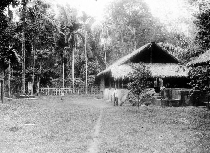 A surau (prayer hall) at Meurasa